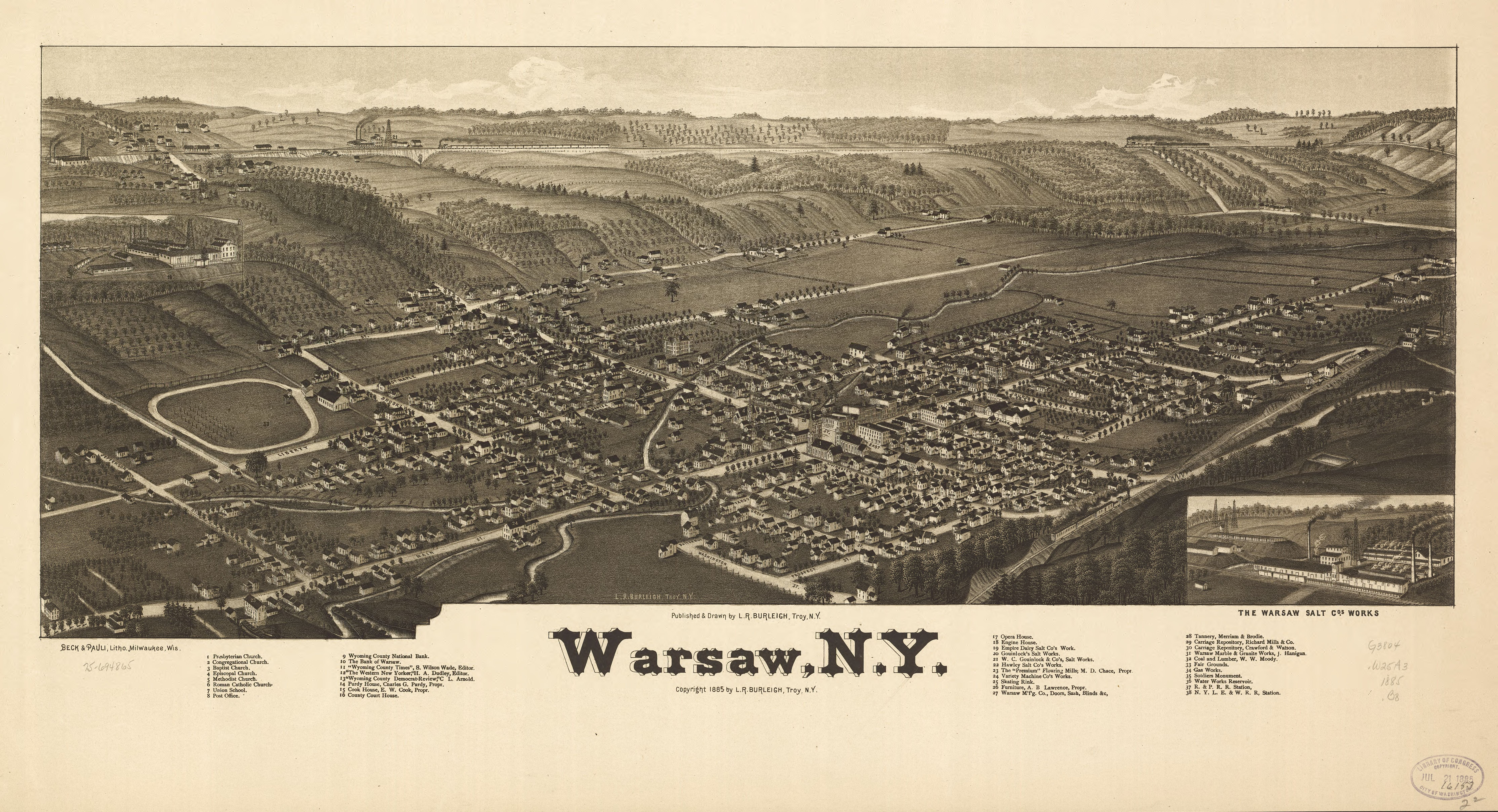 Perspective map not drawn to scale. Bird's-eye-view. LC Panoramic maps (2nd ed.), 650 Available also through the Library of Congress Web site as a raster image. Includes col. illus. and index to points of interest. AACR2